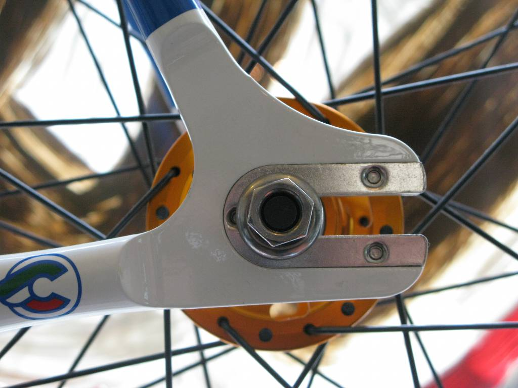 Horizontal, rearward-facing track fork end (not a dropout) on a bicycle frame. Larger version (cc-by-sa-nc; non-commercial use only) here on Flickr.